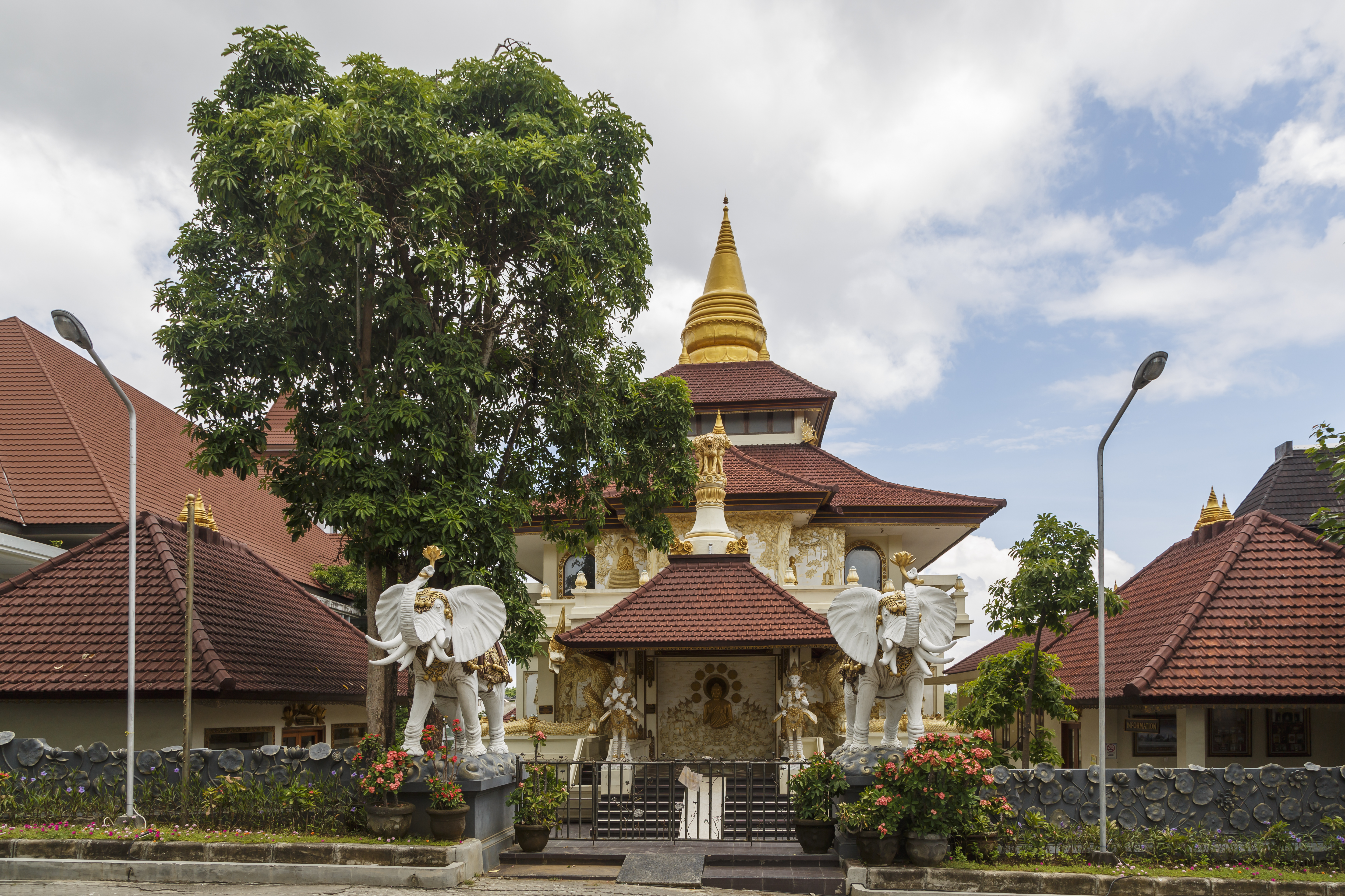 Kuta, Bali, Indonesia: Buddhist temple "Vihara Buddha Guna" at Puja Mandala Complex